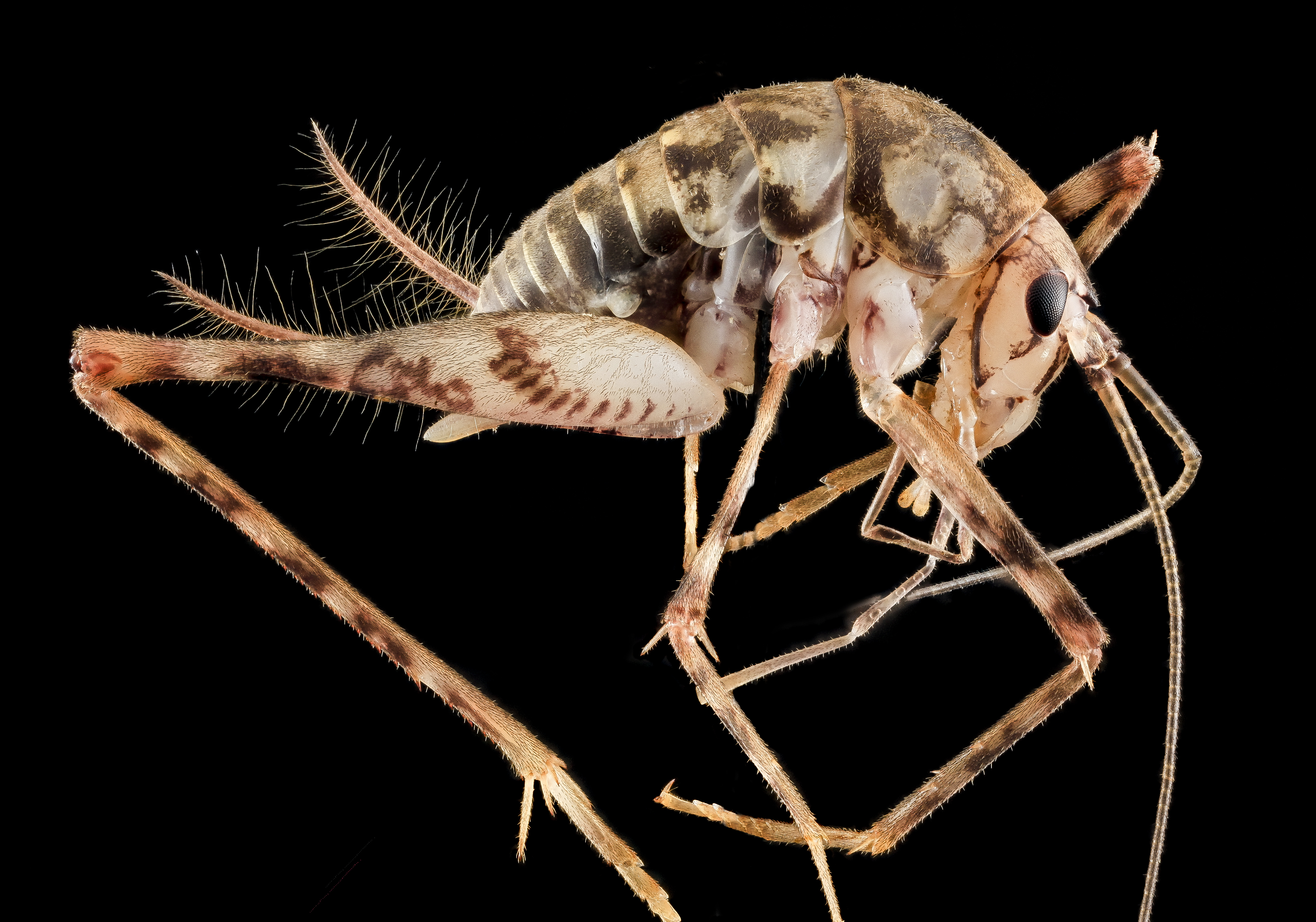 Immature Diestrammena asynamora from my Upper Marlboro Maryland Basement, non-native species now common in many houses